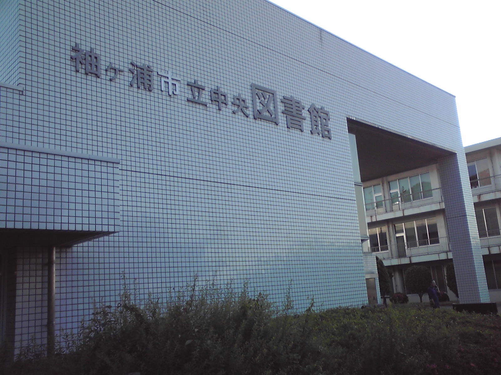 Sodegaura Public Library